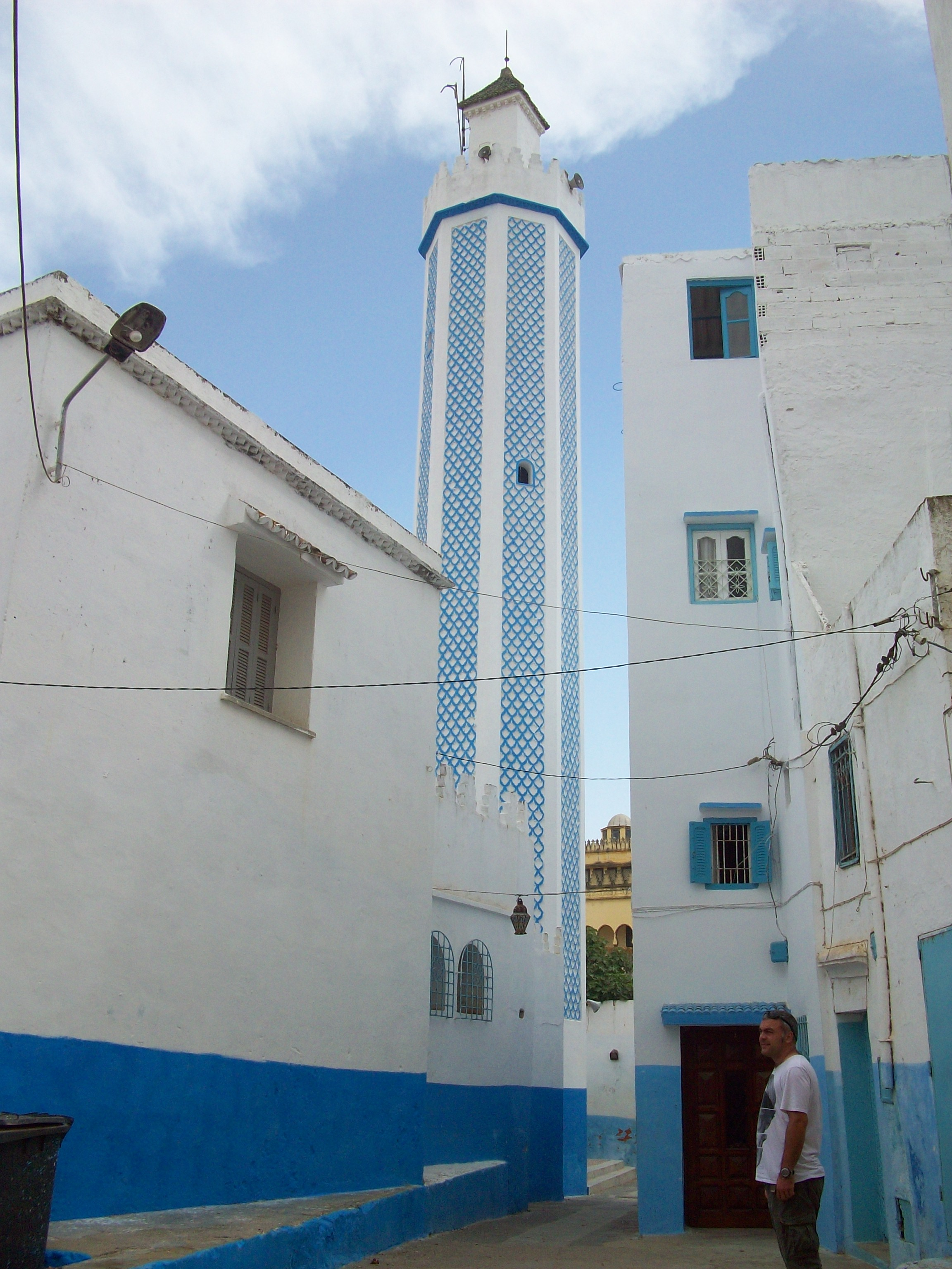 Medina of Larache, Morocco